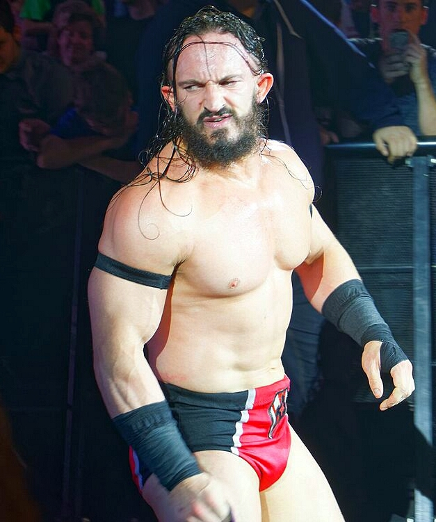 Neville (c) defeats Aleister Black & Austin Aries (in Title Triple Threat Match) Info on the match : WWE Cruiserweight ( Le vendredi 12 mai, la WWE Live Tour fera escale au Country Hall a Liege pour le spectacle de catch de l'annee! Au programme: des duels impitoyables et des rencontres captivantes entre les meilleures equipes et les plus grands rivaux. )